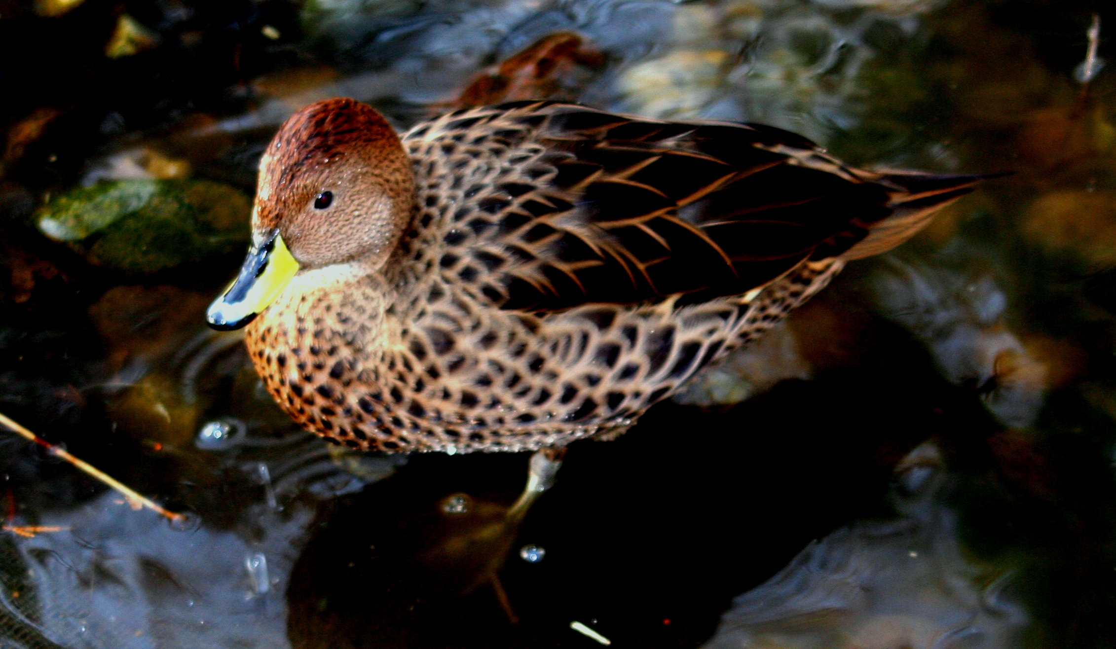 Yellow-billed Pintail - South Georgia race Taken by Duncan Wright